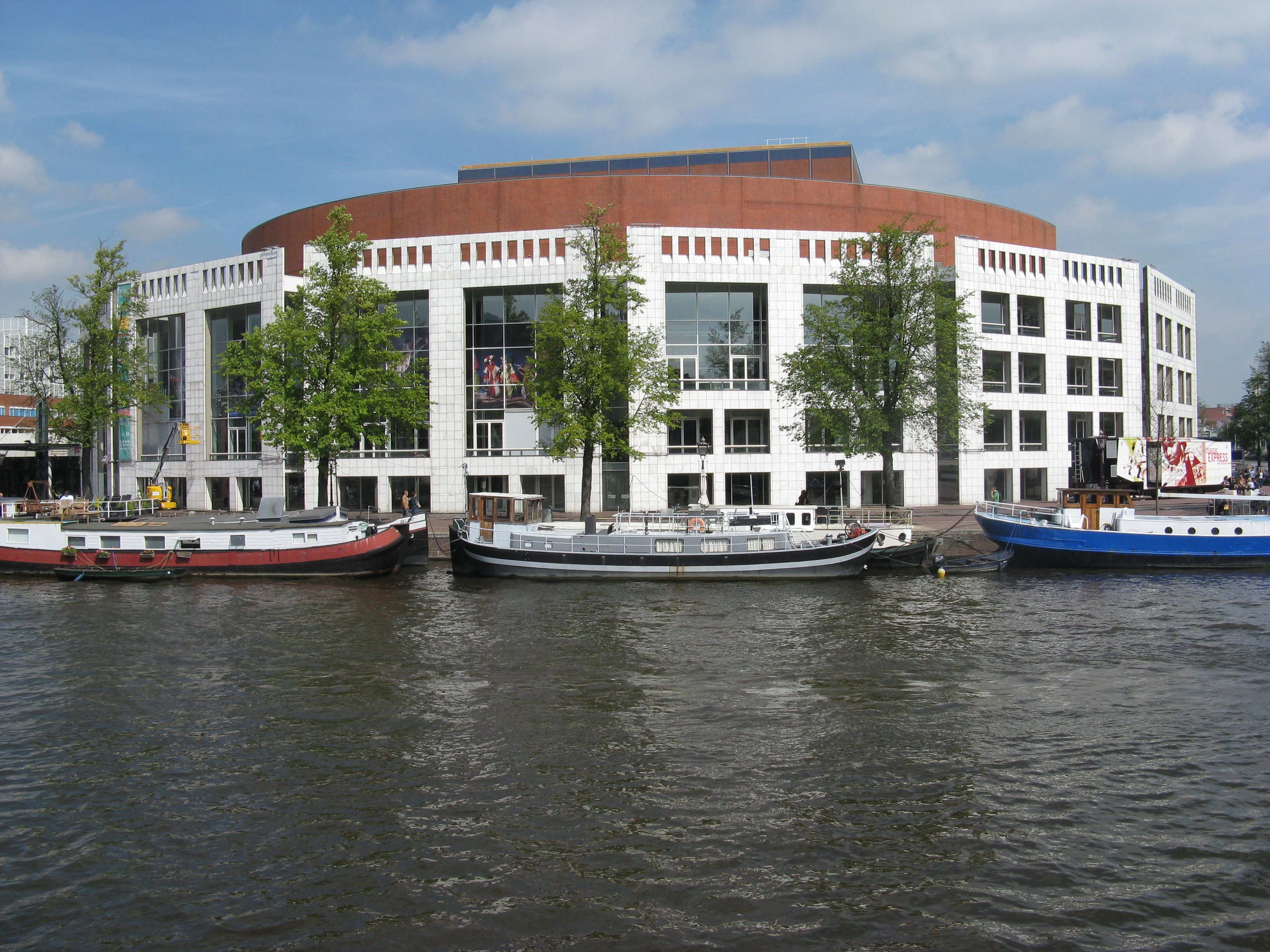 Het Muziektheater Amsterdam